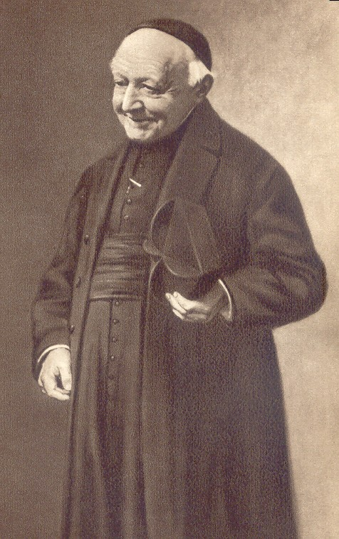 An ancient photograph of the Venerable Adolphe Petit, Belgian Jesuit (1822-1914)